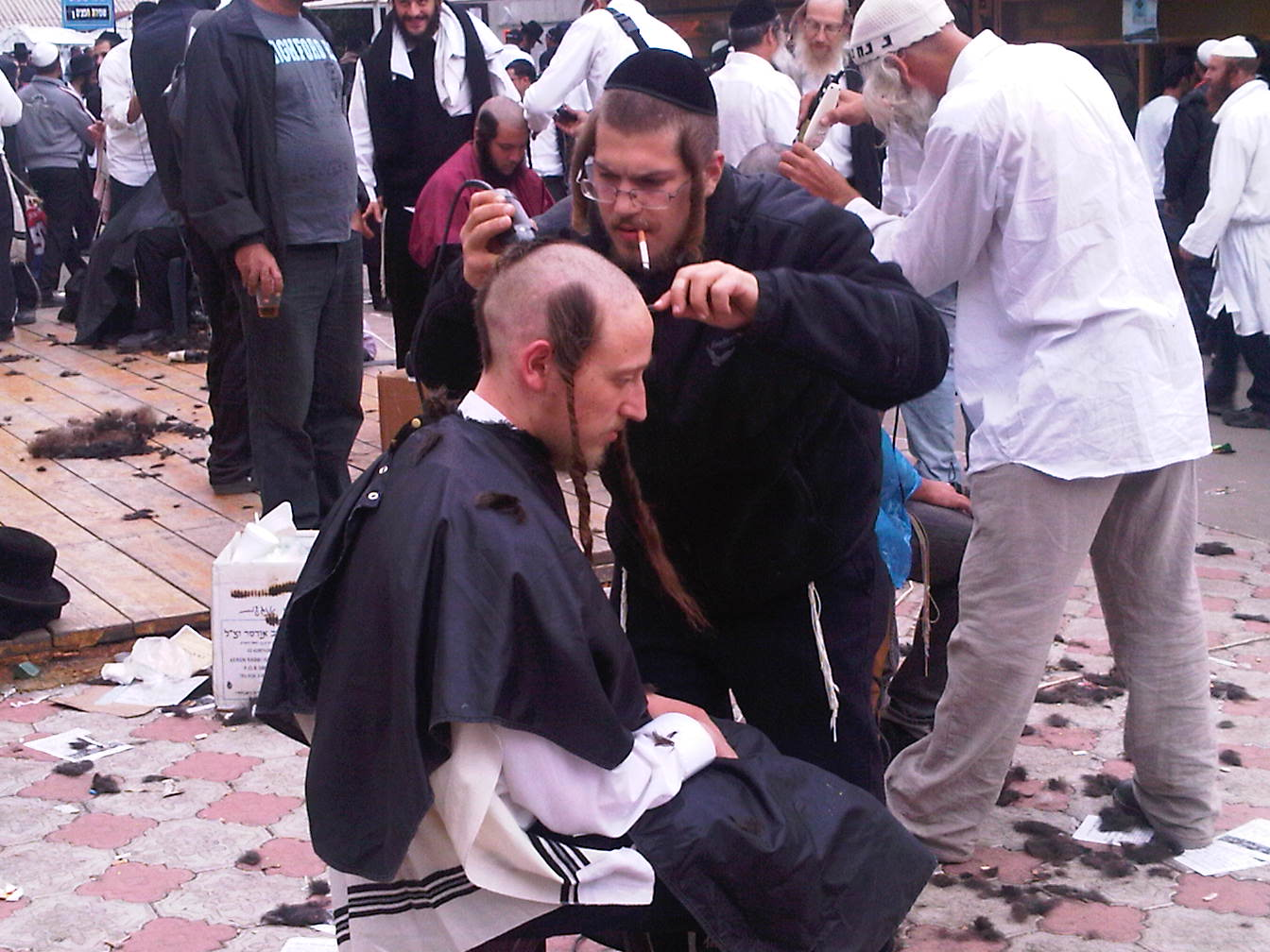 A Jewish barber cuts hair for a Jew male in city Uman, Ukraine